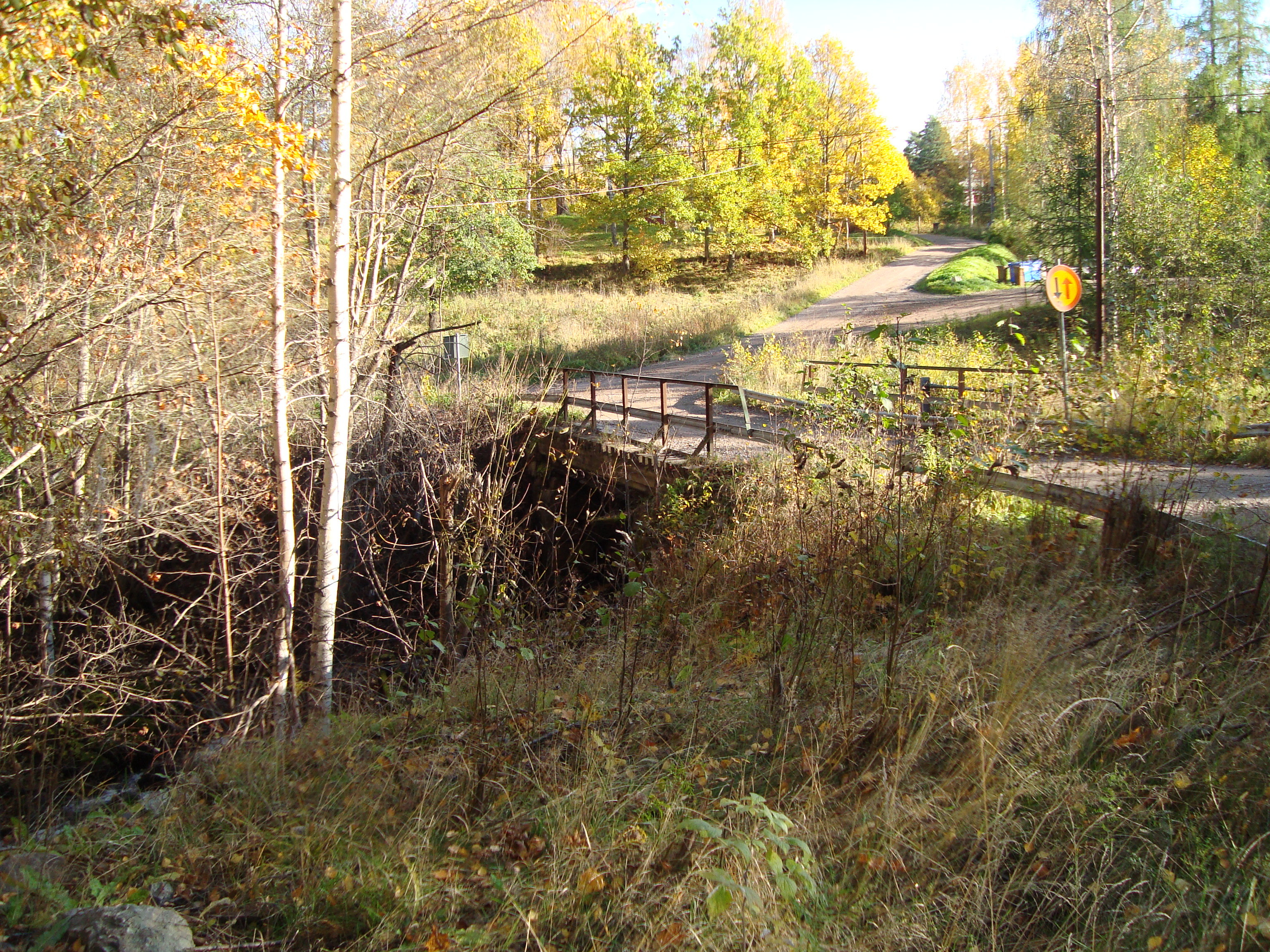 Bridge/dam crossing stream Lustån, Turbo ('luck settlement'), Hedemora municipality, Sweden